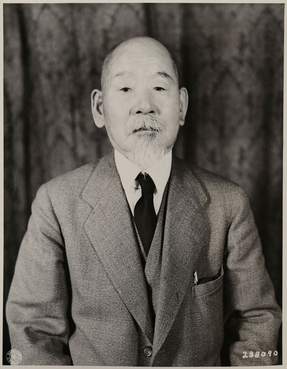 Jirō Minami during the trial for war crimes at International Military Tribunal for the Far East